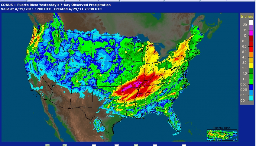 This graphic shows the rainfall between the mornings of April 22 and April 29, which define the bounds of a heavy rain event which occurred across the Midwestern United States